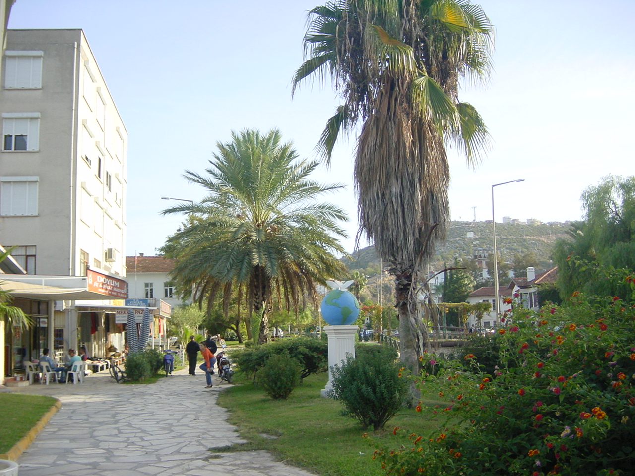 Die Innenstadt mit dem Stadtpark